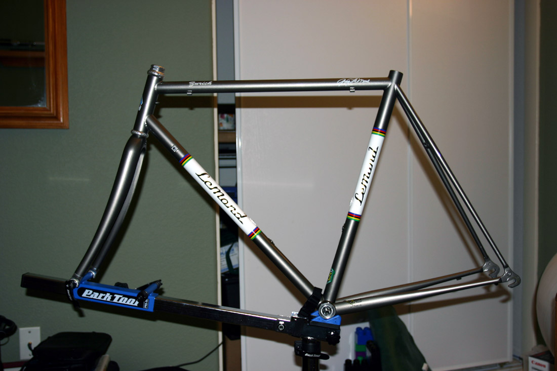 Lemond Zurich 2000 repainted by pro paint shop. Right to use photo on wikipedia granted by photographer and frame owner to thewalrus, march/2006. 2000 Lemond Zurich specifications: [1] Main frame: Reynolds 853 double butted steel alloy Stays: Reynolds 725 steel alloy Fork: Icon Air Rail